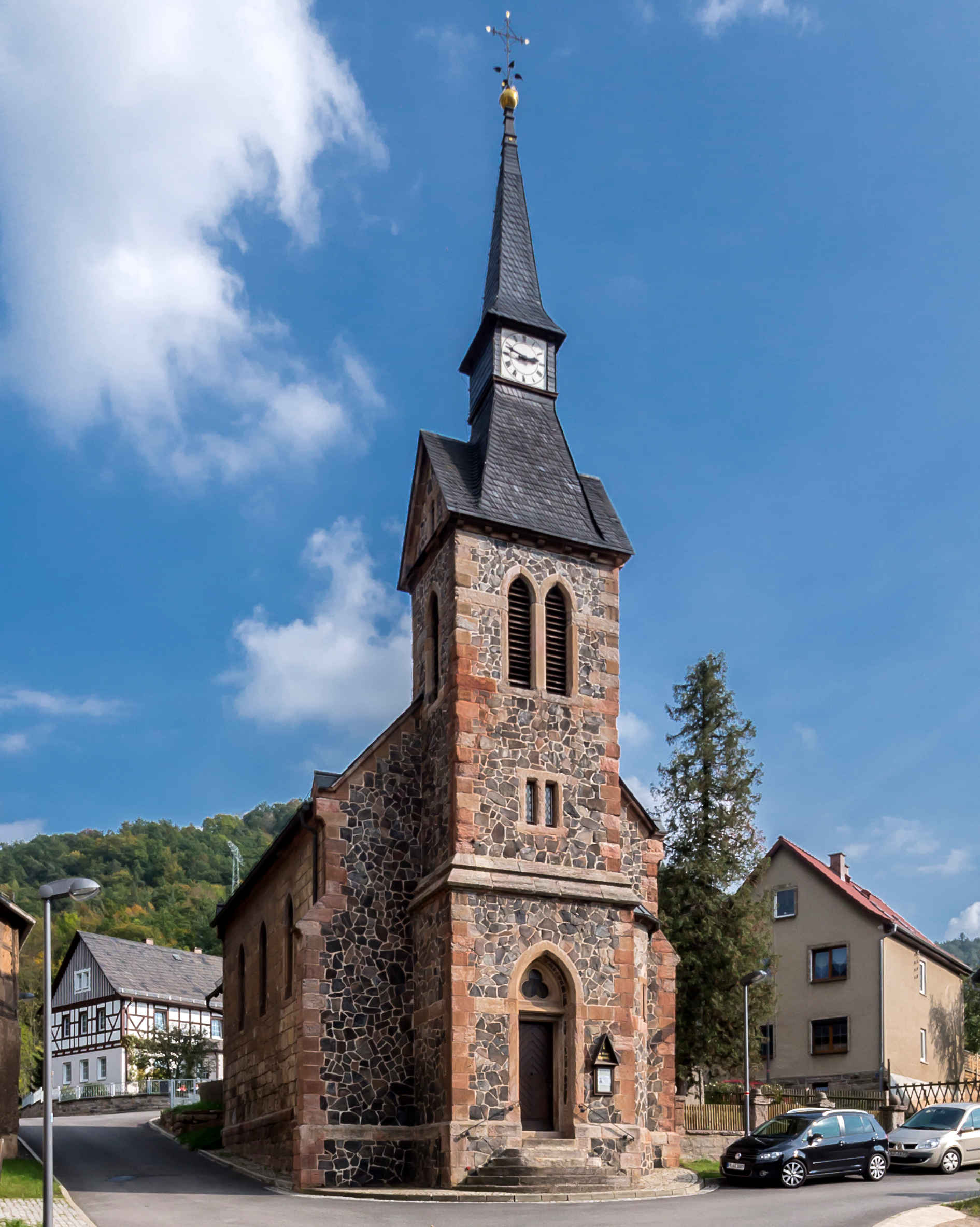 Obernitz An der Kirche 1 Kirche mit Ausstattung